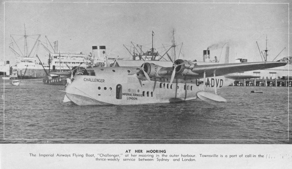 Flying boat, Challenger on her moorings in the Townsville Harbour, Queensland Imperial Airways Flying Boat in the outer harbour in Townsville. This service operated three times a week between London and Sydney. (Information taken from the North Queensland Register, December 1938).